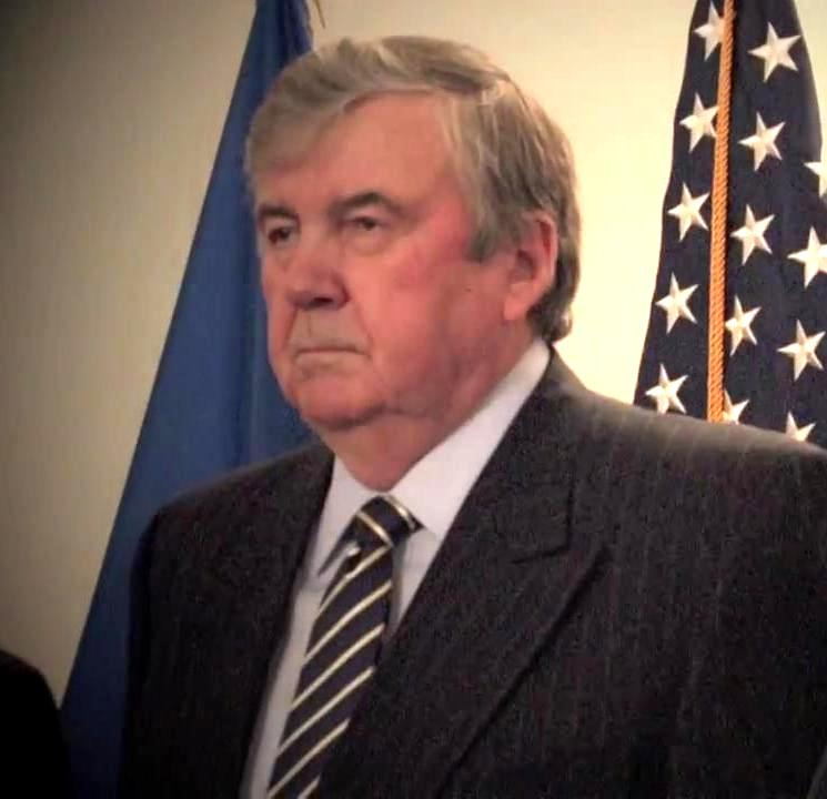 Ex-President of Moldova (1990–1997) Mircea Snegur at the celebration of 20th anniversary of diplomatic relations between Moldova and the United States.